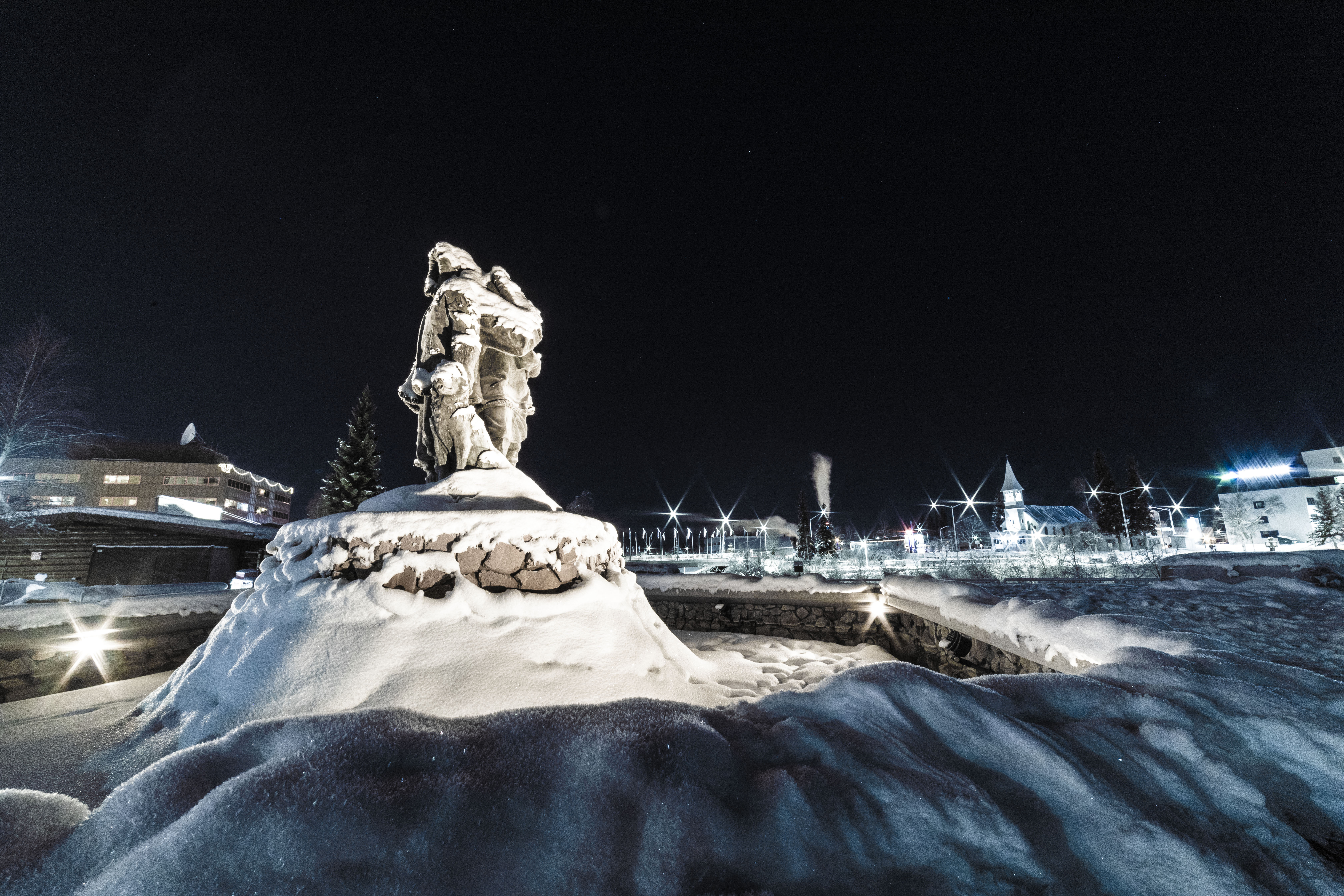 "Unknown First Family" statue